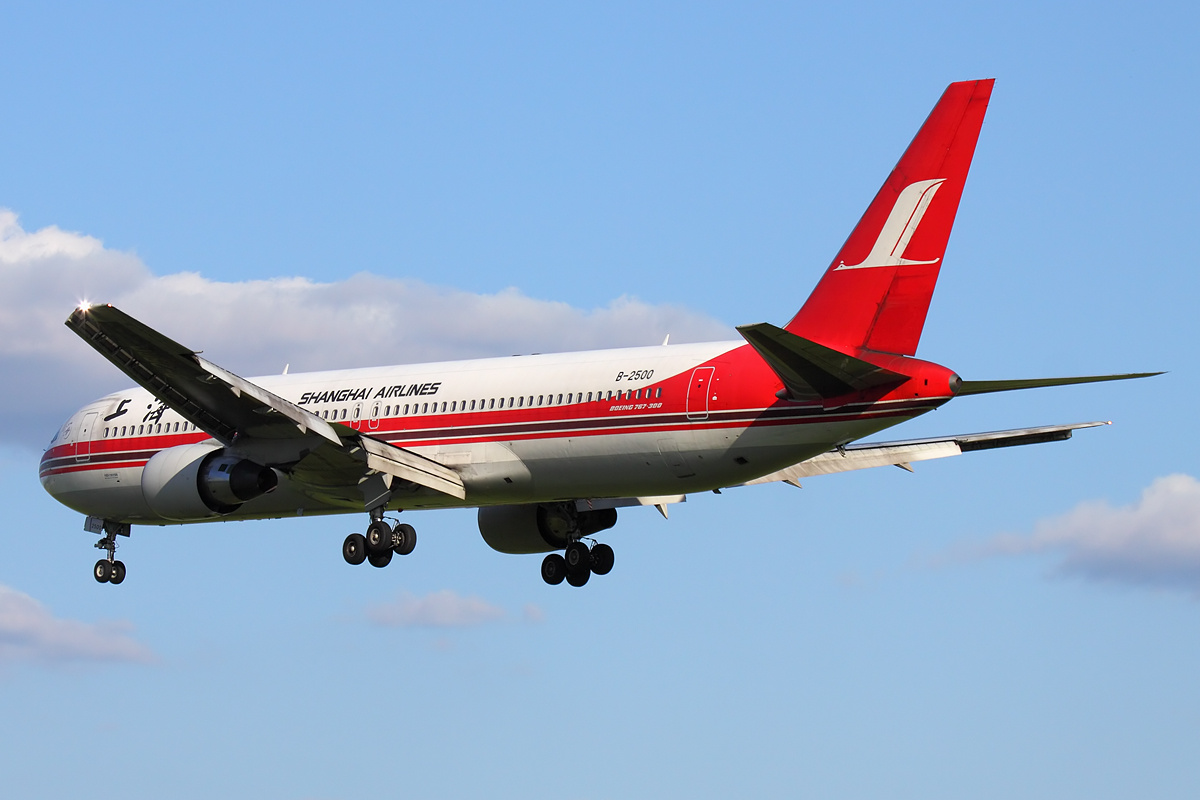 A Shanghai Airlines Boeing 767-36D/ER on short final to Sheremetyevo Airport (SVO / UUEE)